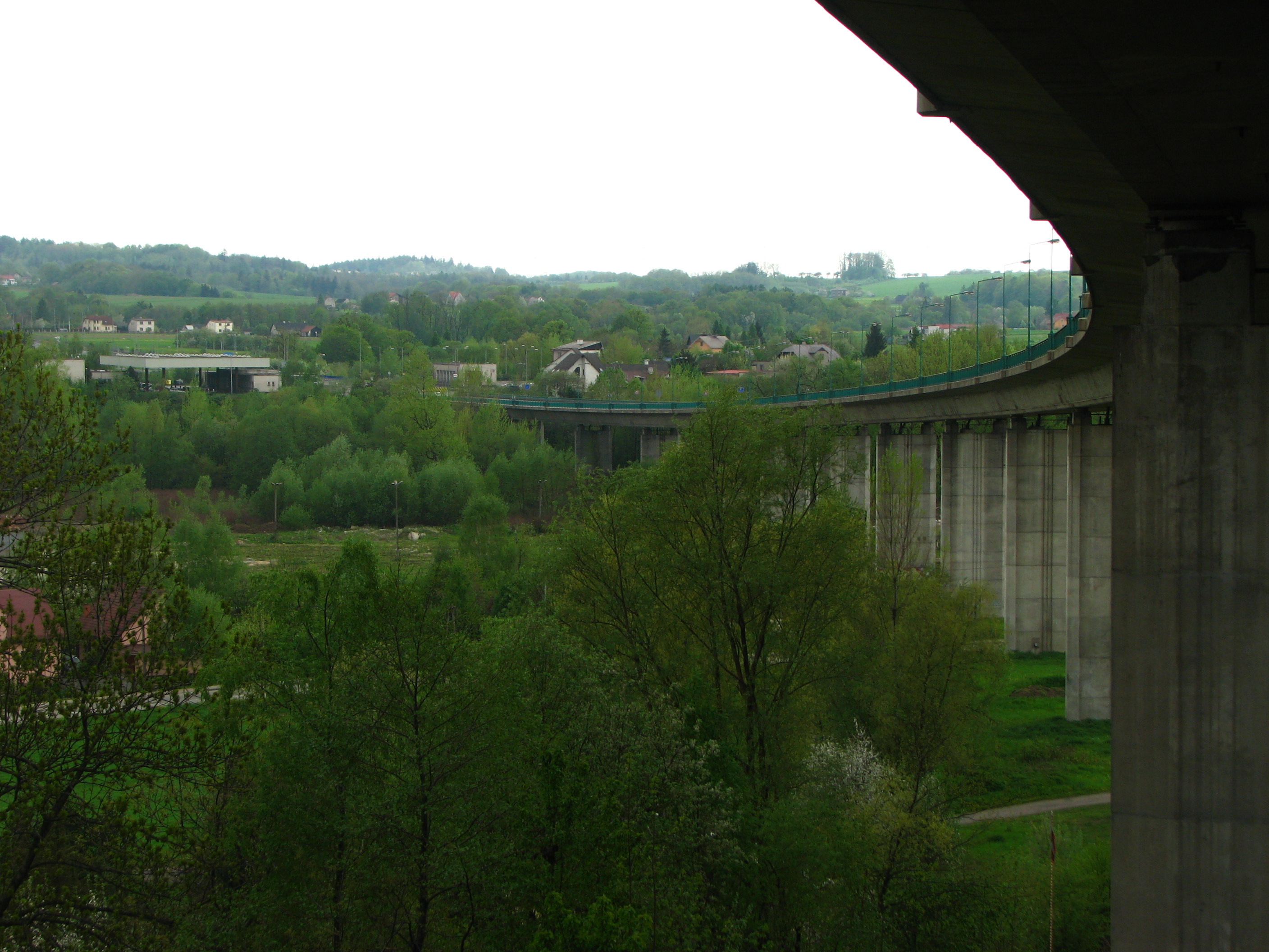 Polish-Czech border bridge in Boguszowice (district of Cieszyn), length 760 meters, built in years 1988-1991, Czech Republic visible in the distance